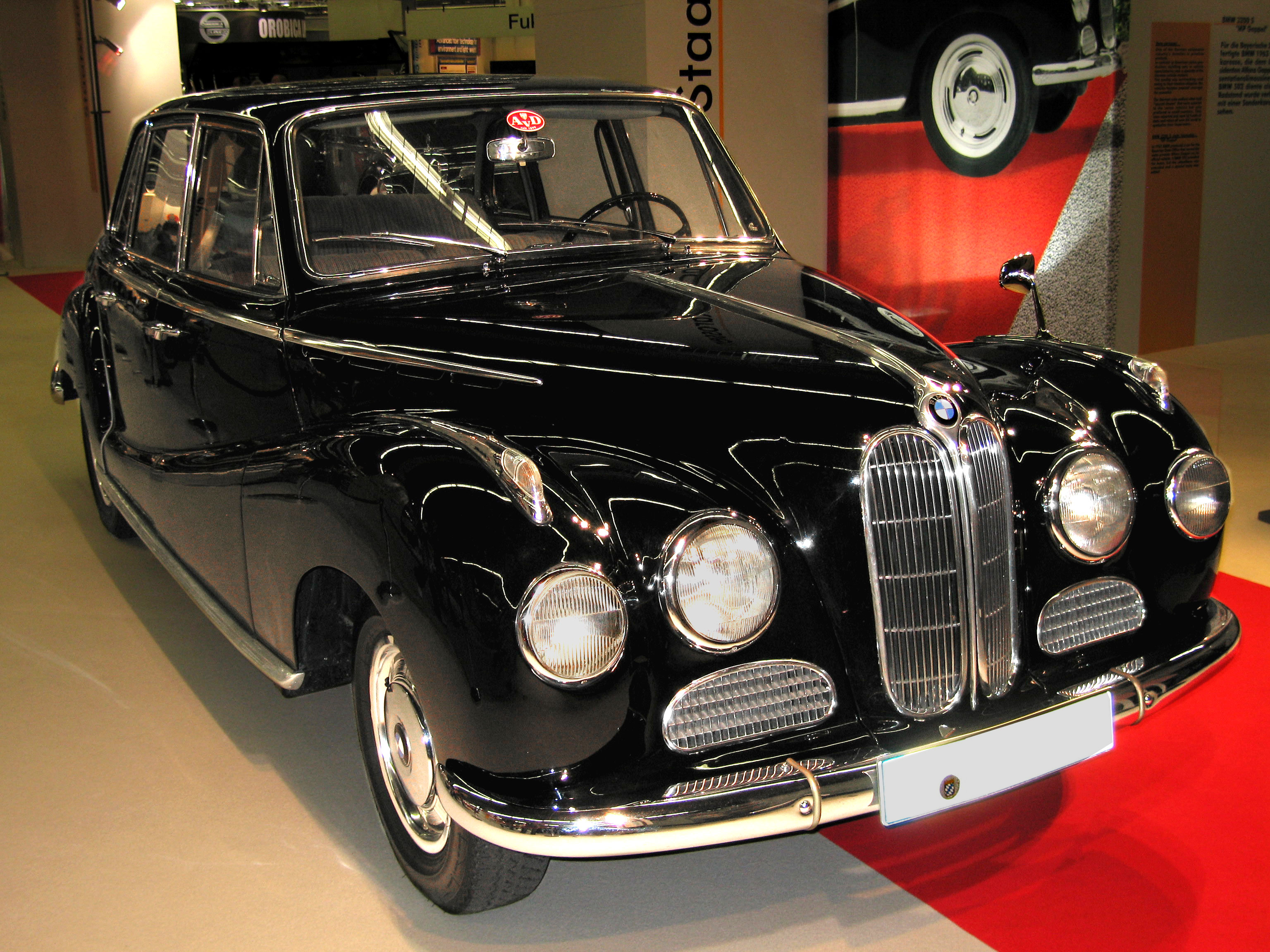 BMW 3200 S special edition for Bavarian state visits